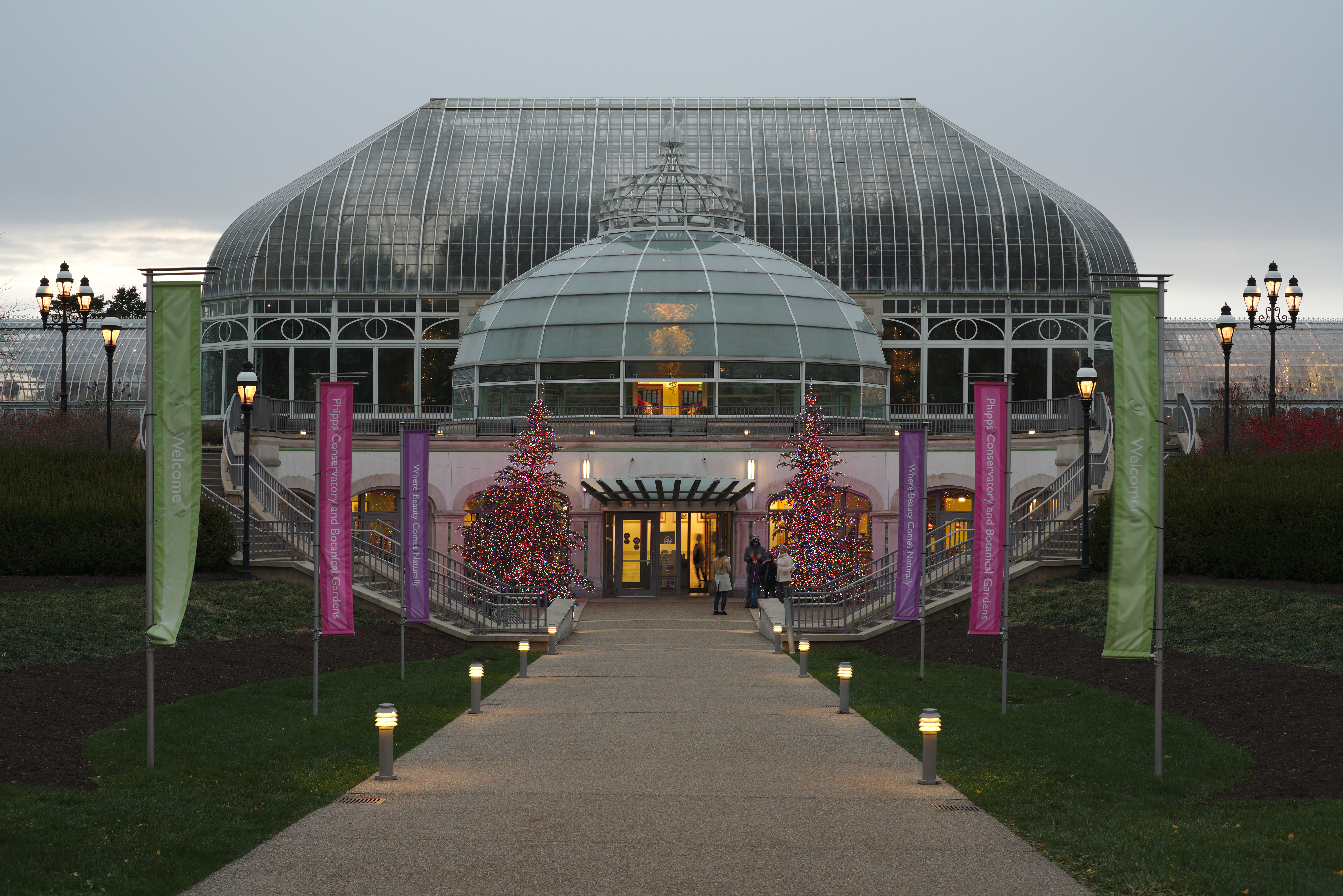 Welcome center of the Phipps Conservatory and Botanical Gardens during the winter 2015 flower show.